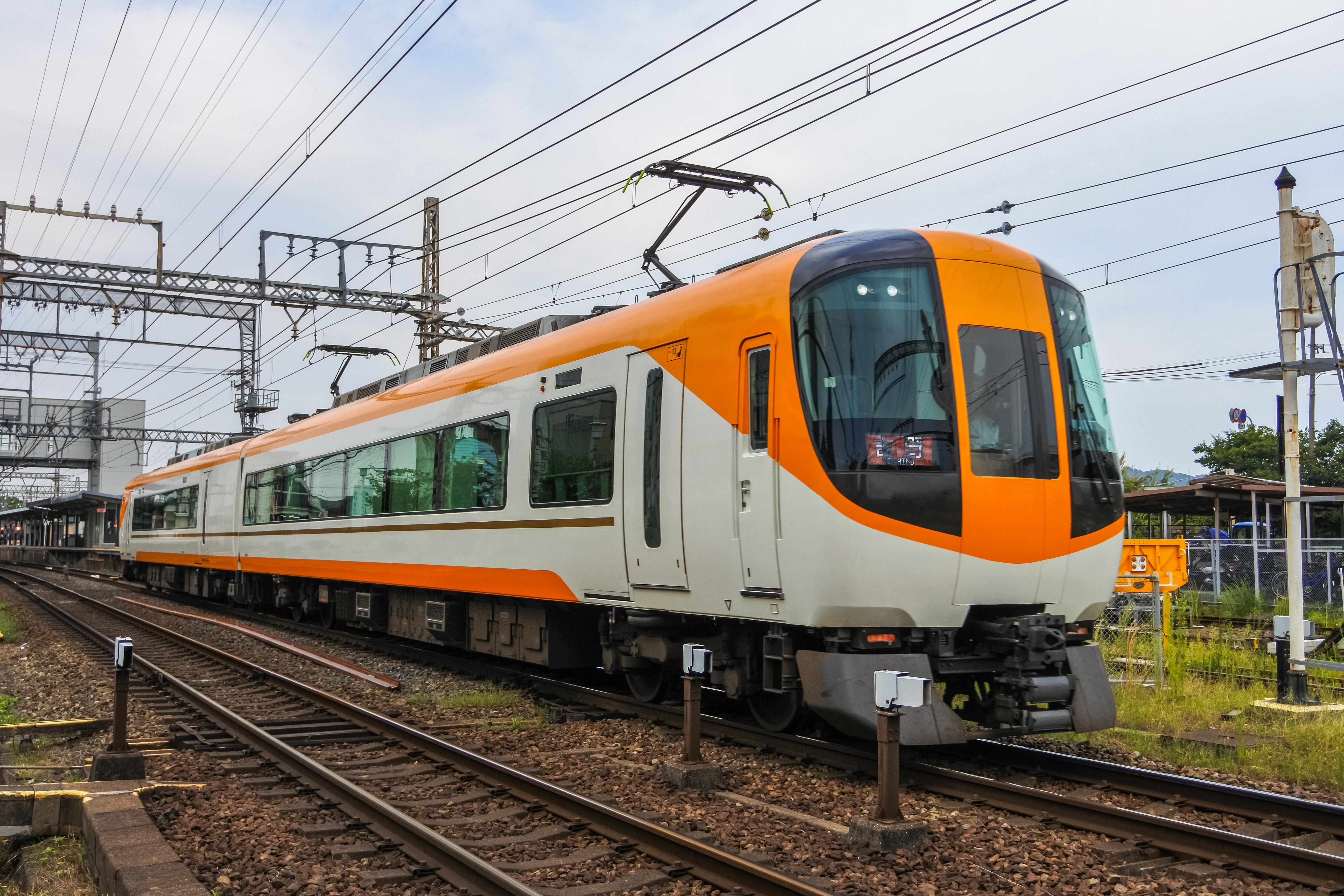 A Kintetsu 16600 series EMU on a limited express service on the Minami-Osaka Line in Osaka Prefecture, Japan